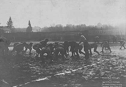 Caption on image: University of Washington vs Agricultural College for State Championship, Thursday Nov 29th 1900 . Sign in image: Seattle Hardware . Peiser 10005 Subjects (LCTGM): Football--Washington (State)--Seattle; University of Washington--People--Washington (State)--Seattle; Agricultural College, Experiment Station, and School of Science of the State of Washington--People--Washington (State)--Seattle